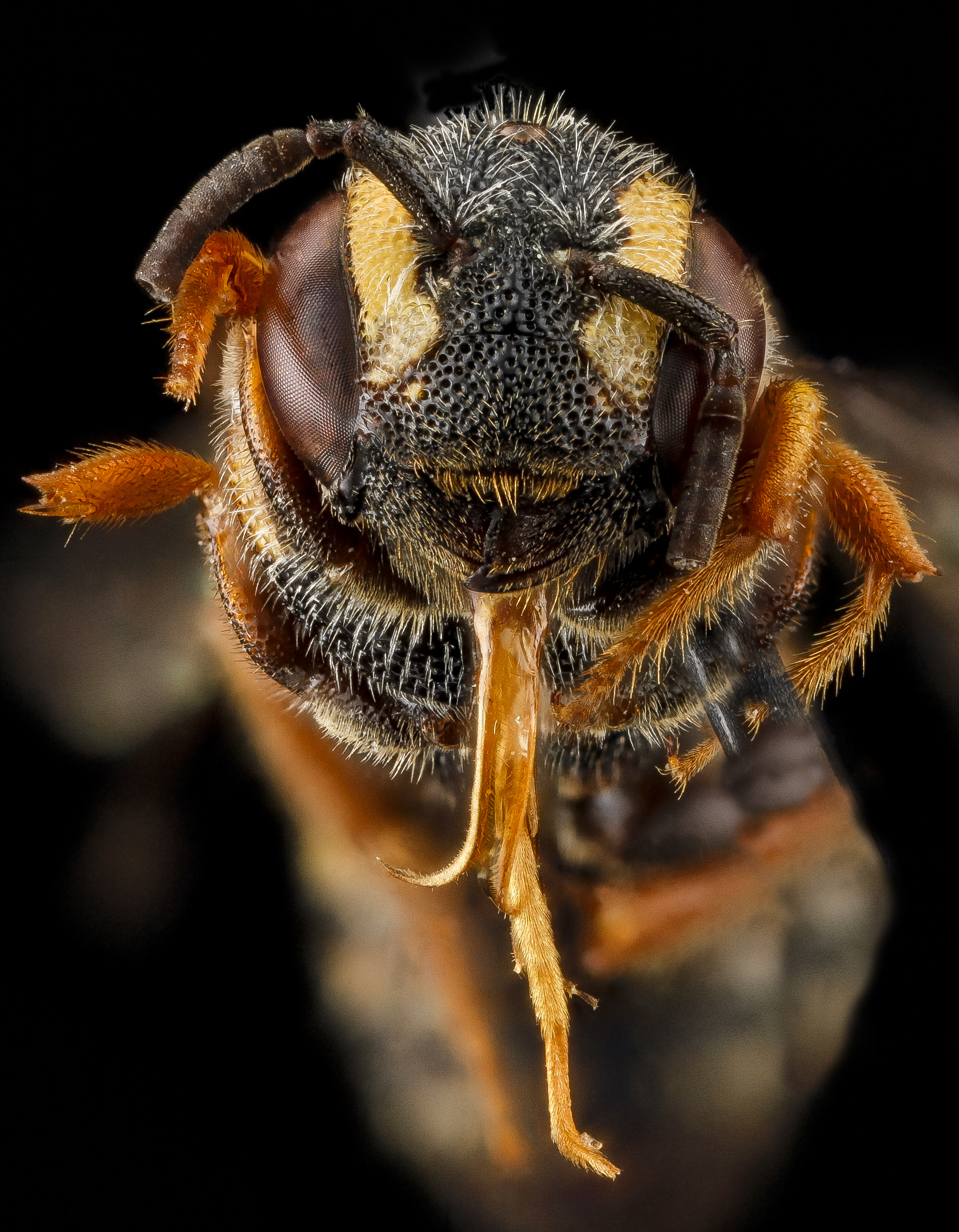 Stelis louisae, Prince George's county Maryland